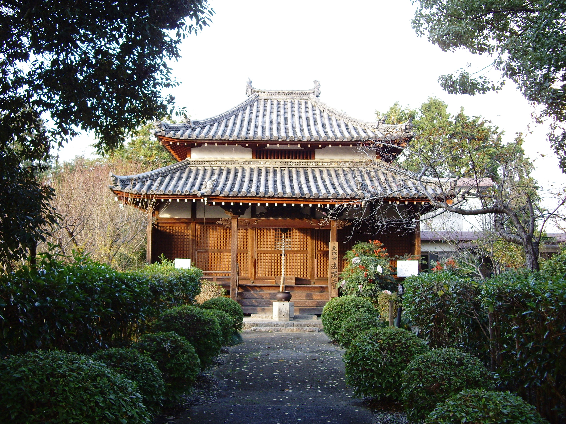 Hōraku-ji Temple, in Tawaramoto, Nara Prefecture, Japan